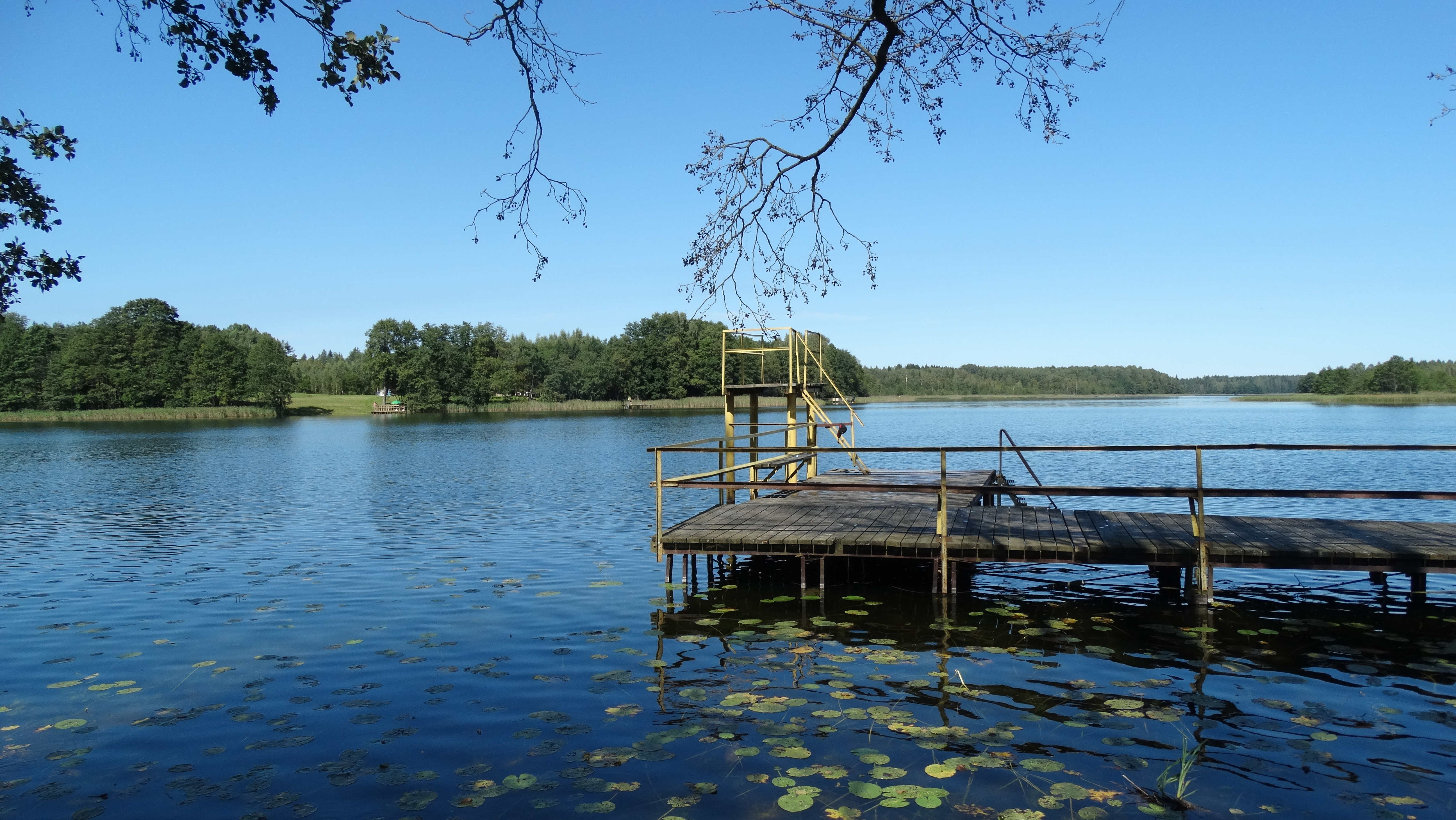 Sariai Lake, Švenčionys district, Lithuania